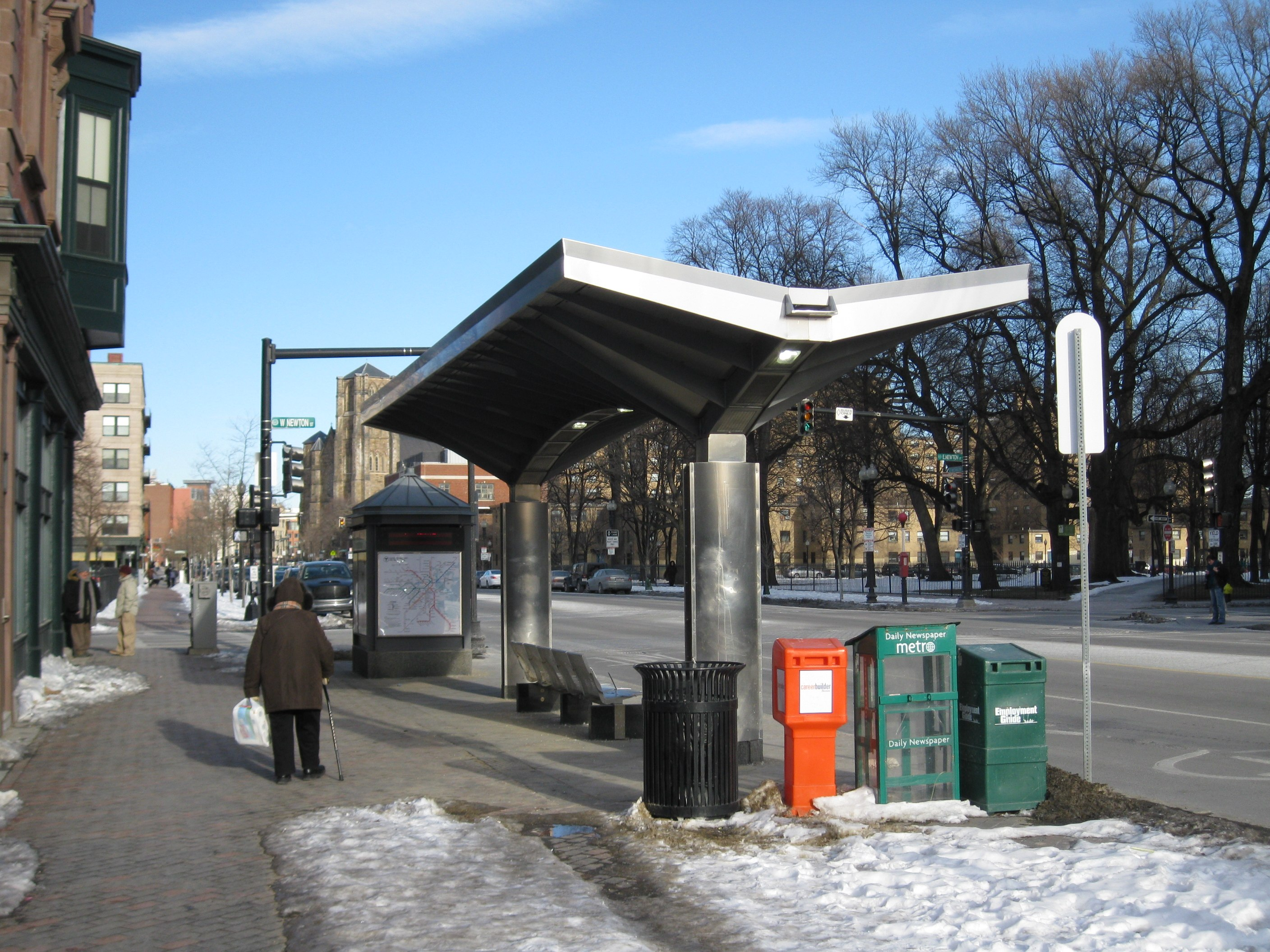 Silver Line (MBTA) bus stop on Washington Street, Boston at Newton Street (MBTA station).